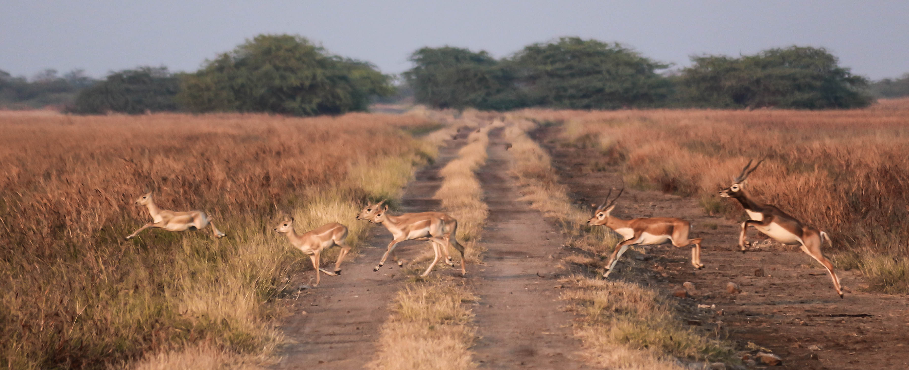 Blackbucks (Antilope cervicapra) in Blackbuck National Park, Velavadar, Inde